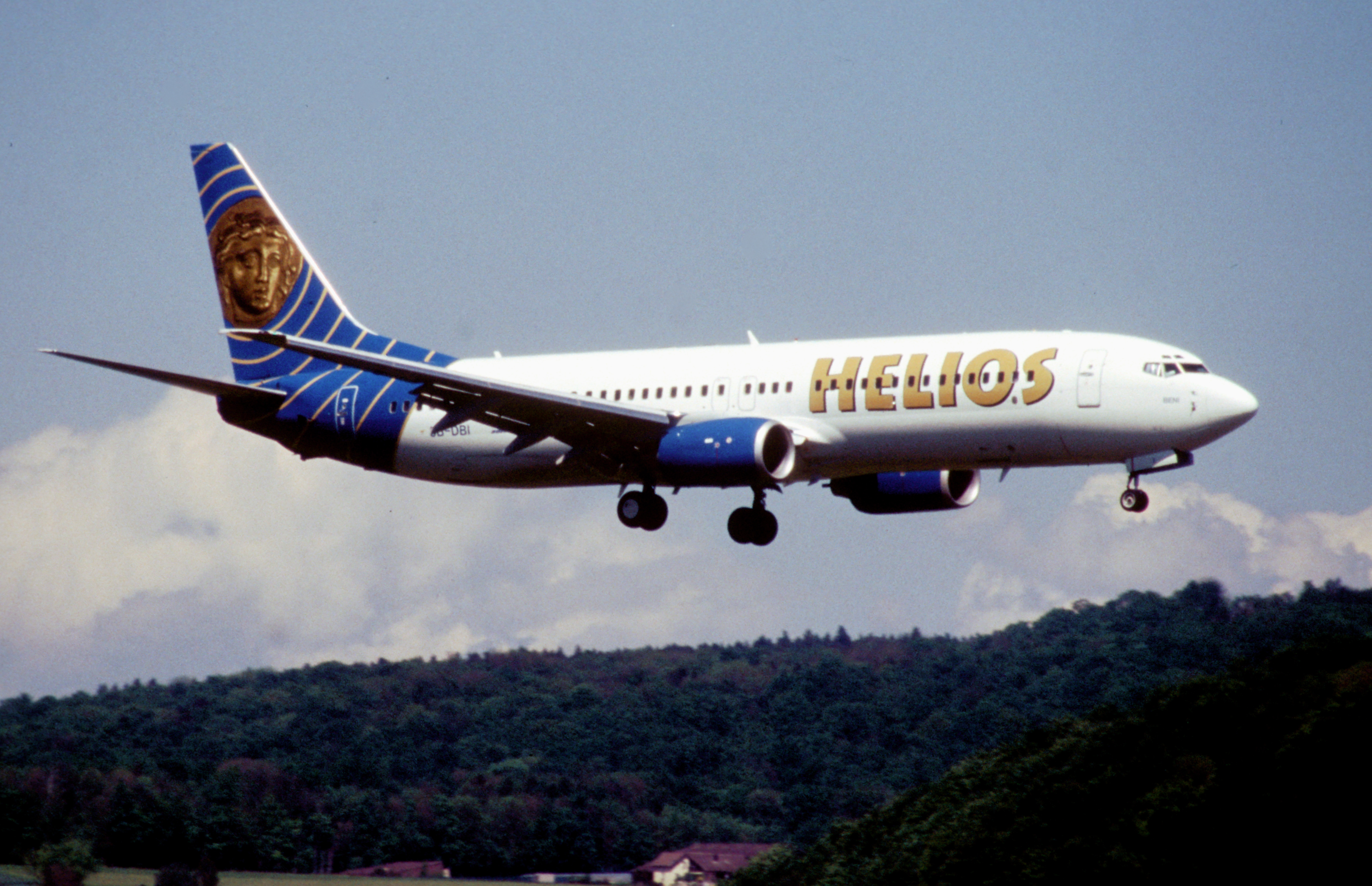 Helios Airlines Boeing 737-86N; 5B-DBI@ZRH, May 2002/ DUB